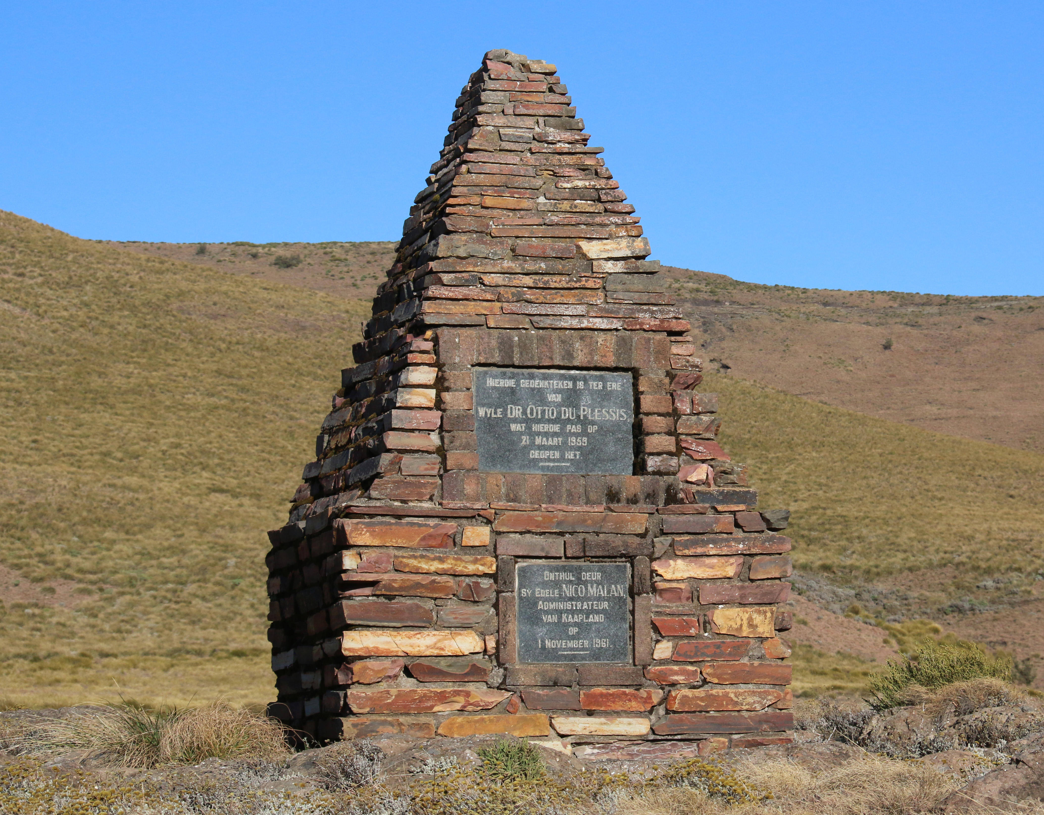 New submission for inclusion of monuments, located at S31.229682 E27.516610